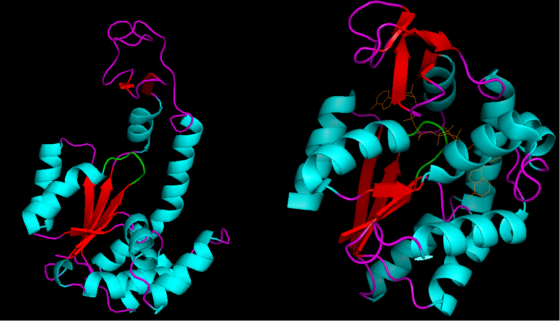 adenylate kinase open and closed conformations, made with pdb data from files 1ake and 4ake